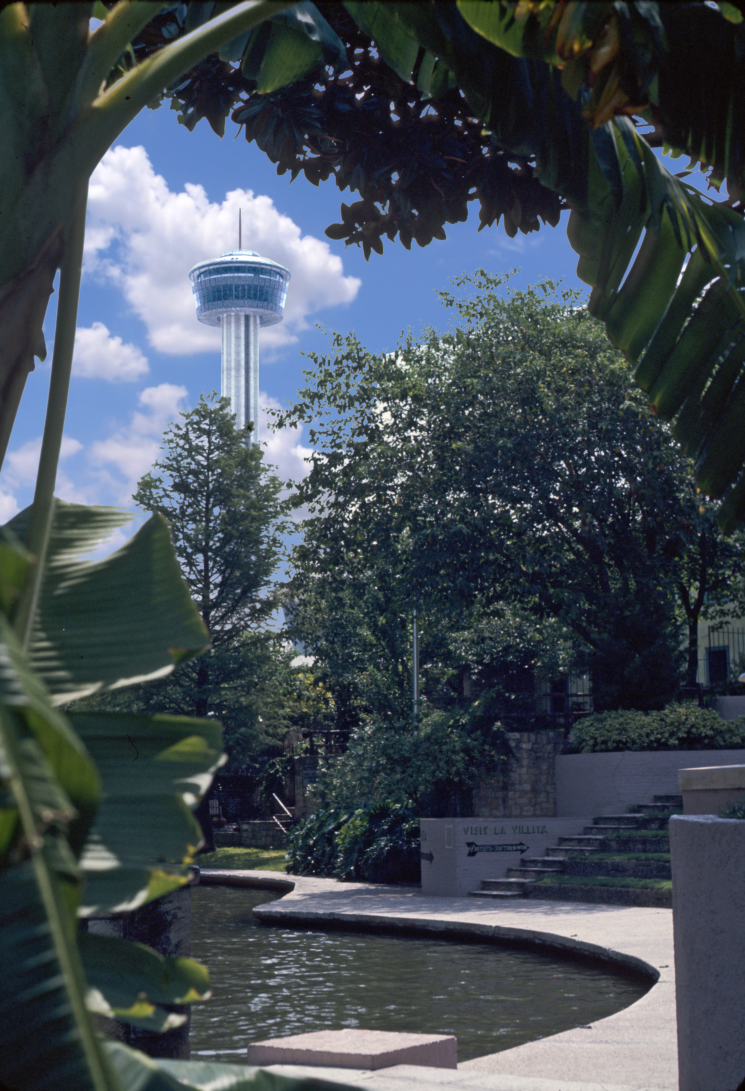 Tower of the Americas from the River Walk -- San Antonio